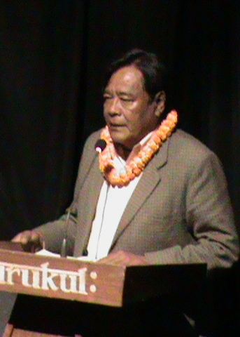 Krishna Bhushan Bal speaking during the valedictory session of Koshi Kavya Yatra